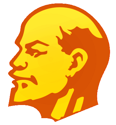 Head icon of V. I. Lenin, leader of the Russian Revolution 1917.